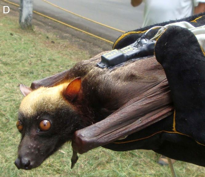 Image of Acerodon jubatus getting fitted with a GPS tracking device for scientific research